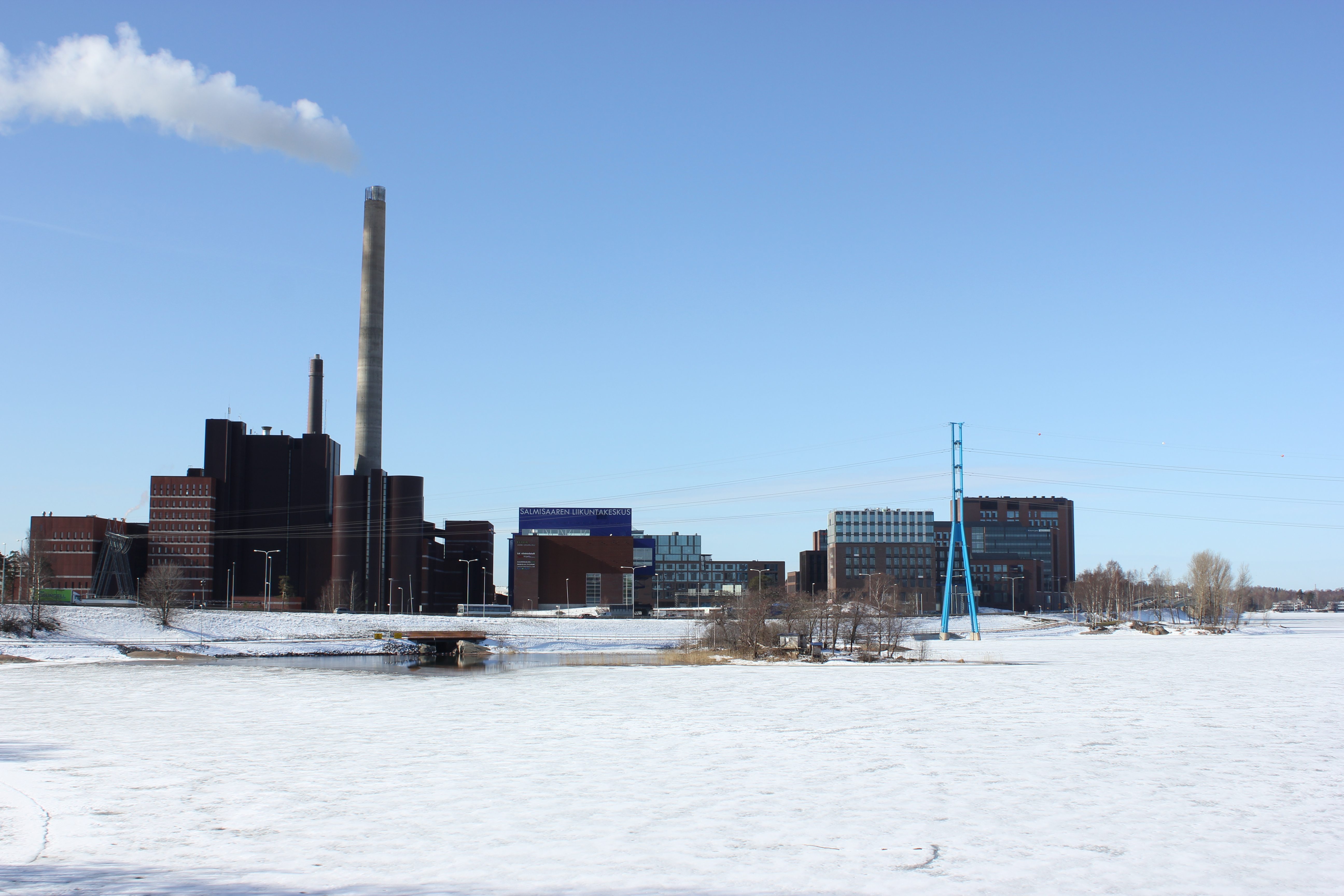 Ruoholahti quater as seen from North-East